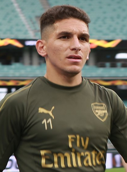 Uruguayan footballer Lucas Torreira on 28 May 2019 ahead of the 2019 Europa League Final in Baku.